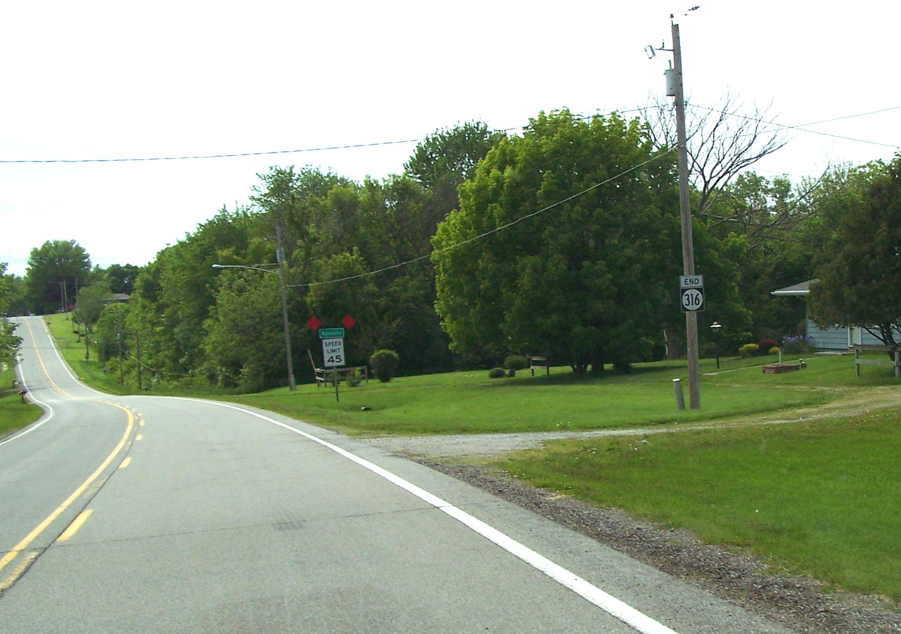 The northern end of Iowa Highway 316 at the Runnells, Iowa, city limits.